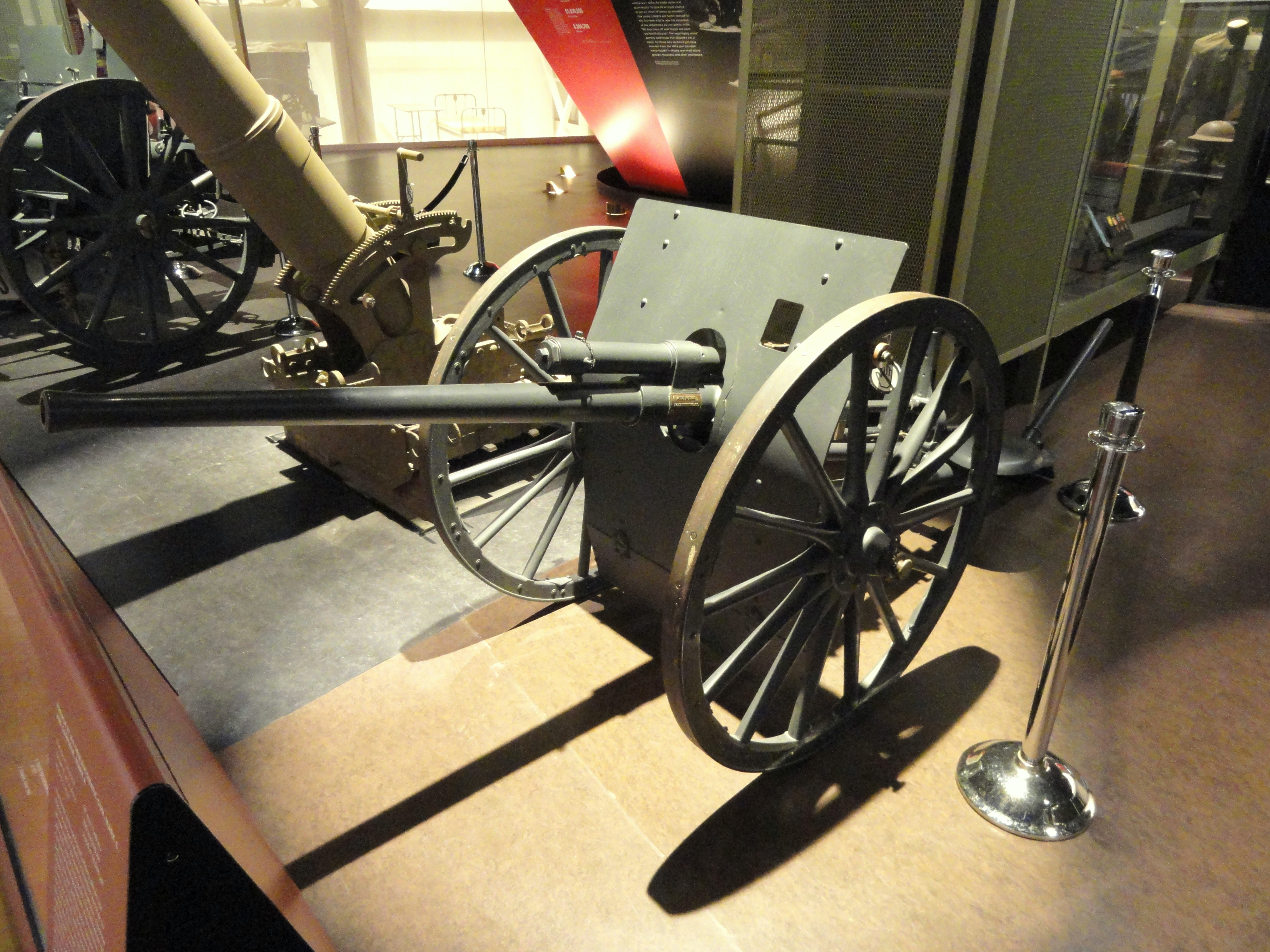 Artillery exhibited in the National World War I Museum at the Liberty Memorial, 100 W. 26th Street, Kansas City, Missouri, USA.